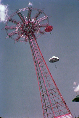 World's Fair. Life Savers parachute tower MEDIUM: 1 slide : color ; 2x2 in. PART OF: Gottscho-Schleisner Collection (Library of Congress)